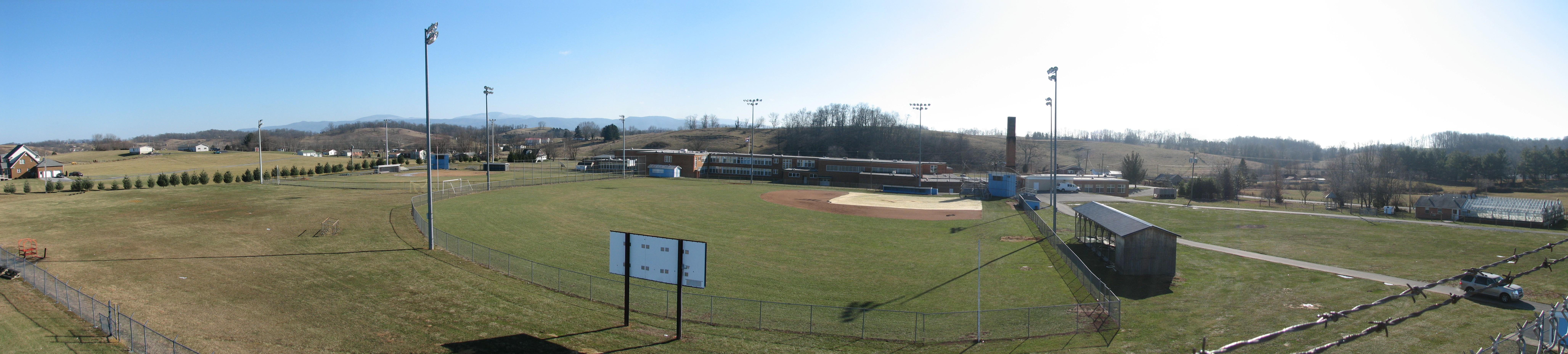 PHHS athletic fields